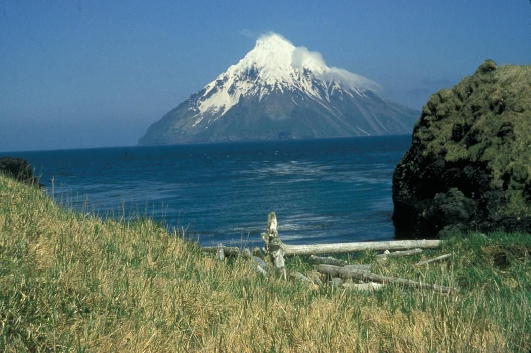 Image title: Chagulak island in the aleutian islands in the Alaska Image from Public domain images website